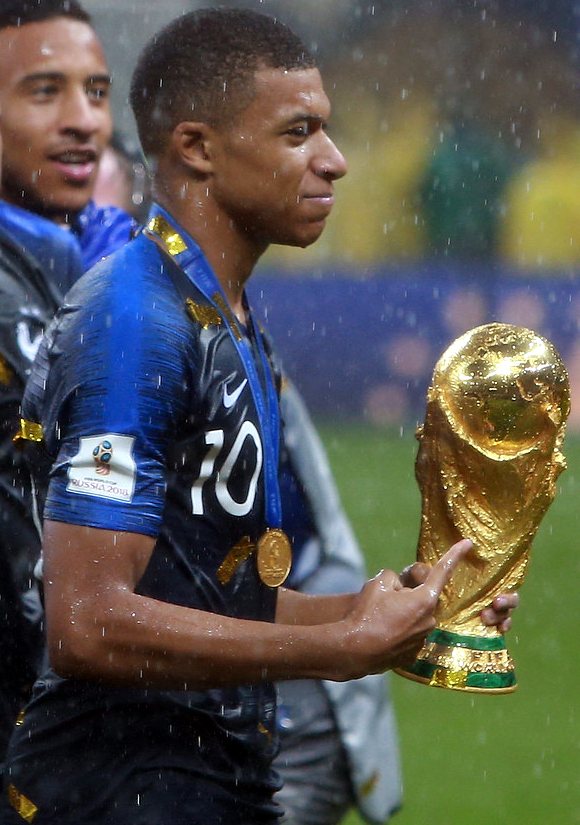 French footballer Kylian Mbappé holding the FIFA World Cup Trophy after the tournament's final match on 15 July 2018.